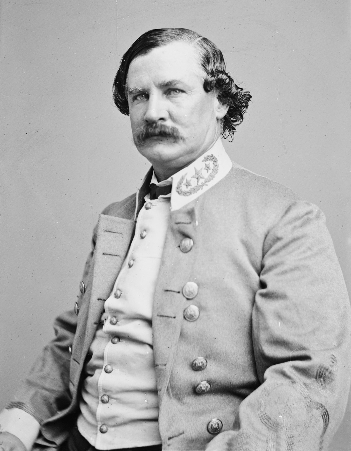 Portrait of Maj. Gen. Benjamin F. Cheatham, officer of the Confederate Army. CREATED/PUBLISHED [Between 1860 and 1865] NOTES Reference: Civil War photographs, 1861-1865 / compiled by Hirst D. Milhollen and Donald H. Mugridge, Washington, D.C. : Library of Congress, 1977. No. 1027 Title from Milhollen and Mugridge. DWF page 403. Corresponding print is in LOT 4213. Forms part of Selected Civil War photographs, 1861-1865 (Library of Congress) CALL NUMBER LC-B813- 1975 A REPRODUCTION NUMBER LC-DIG-cwpb-05989 DLC (digital file from original neg.) LC-B8172-1975 DLC (b&w film neg.) SPECIAL TERMS OF USE No known restrictions on publication.